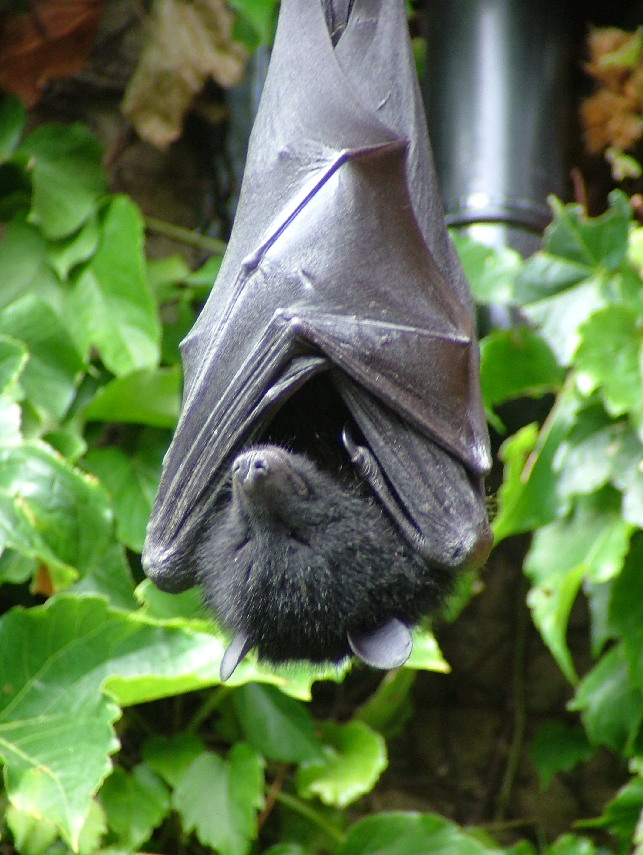 A Livingstone's Fruit Bat (Pteropus livingstonii) photographed at Bristol Zoo.